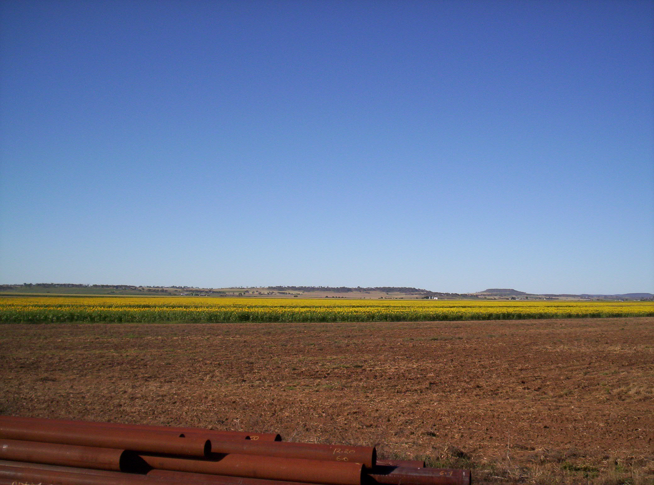 A sunflower crop near Allora, on the Darling Downs, Queensland